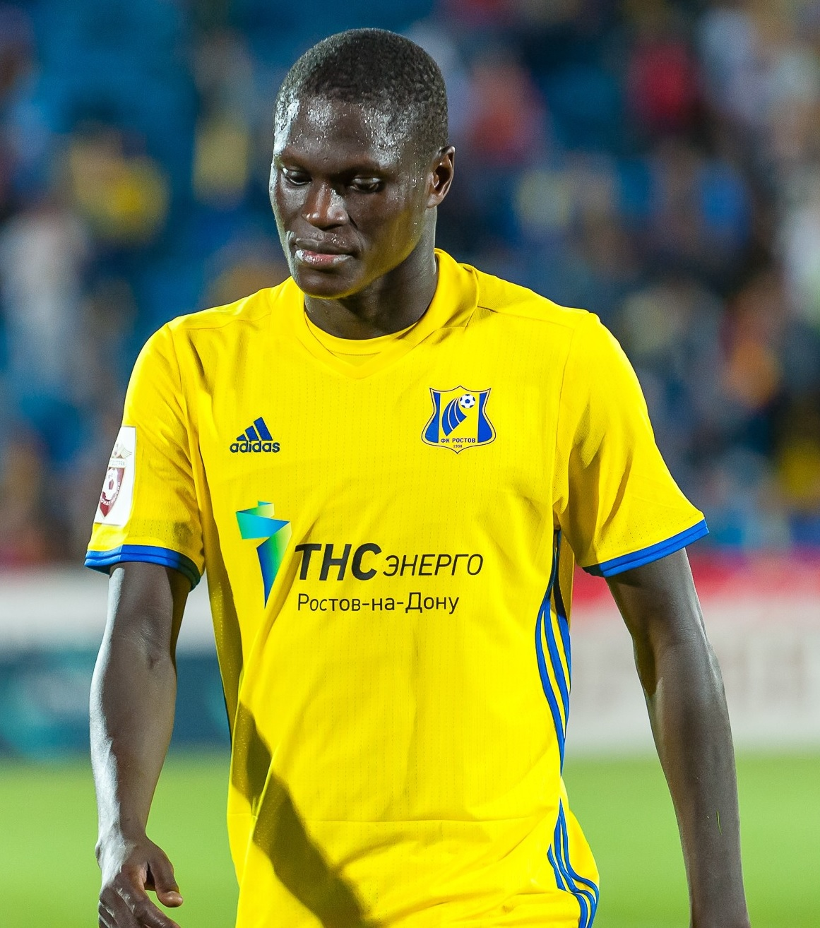 Papa Gueye with FC Rostov in a game against FC Krylia Sovetov Samara.